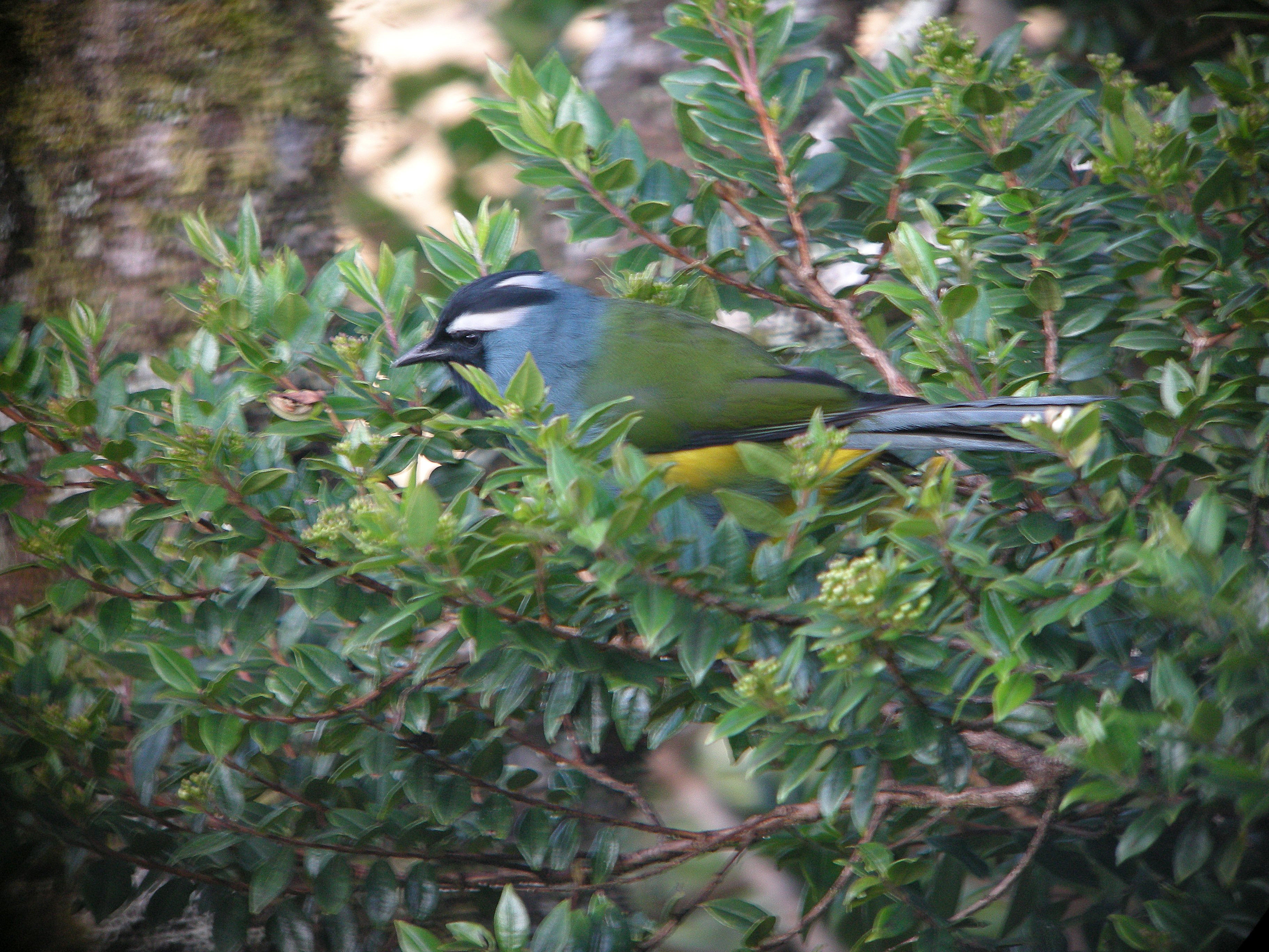 Crested Berrypecker in Papua New Guinea.